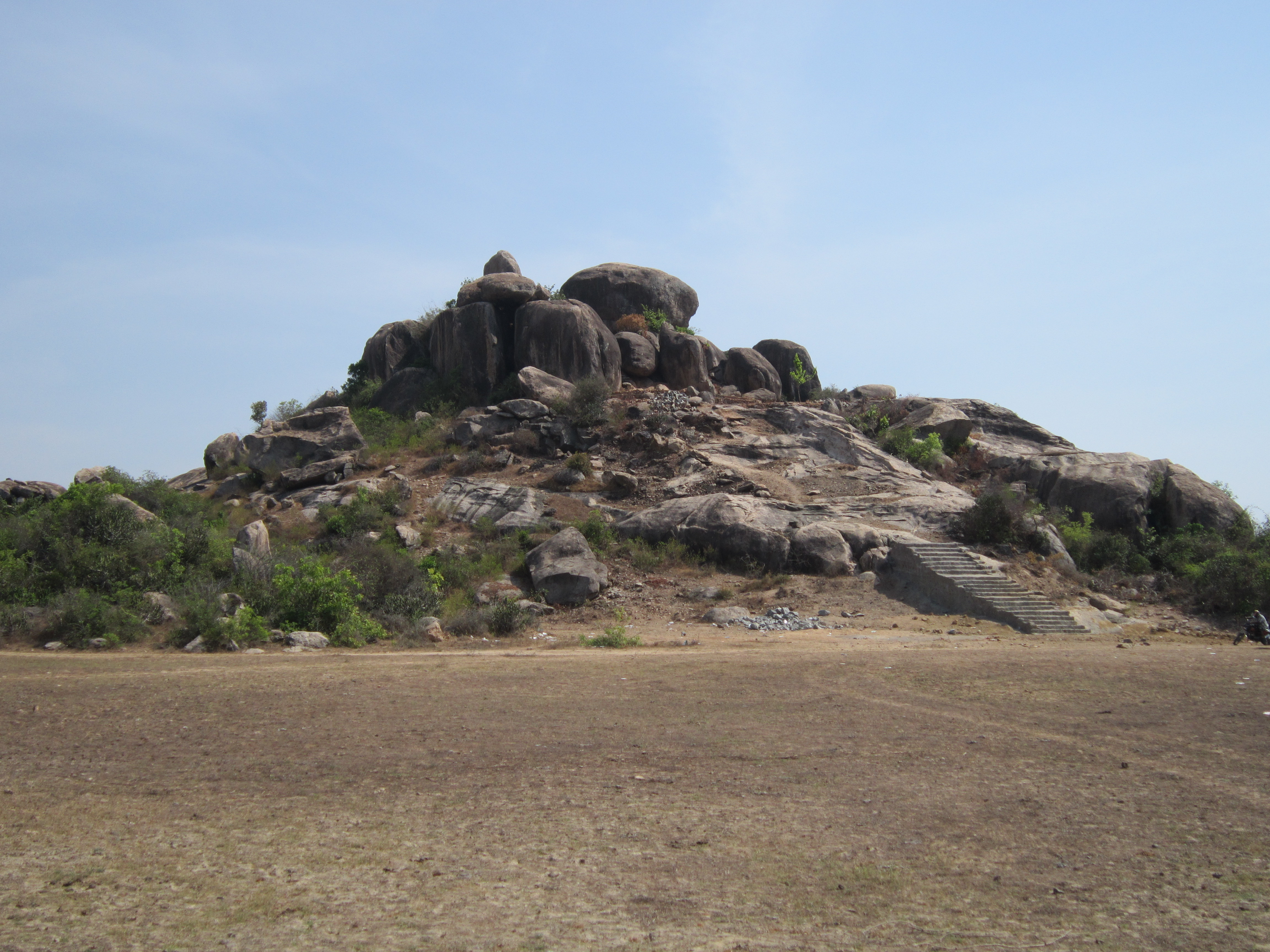 for wiki